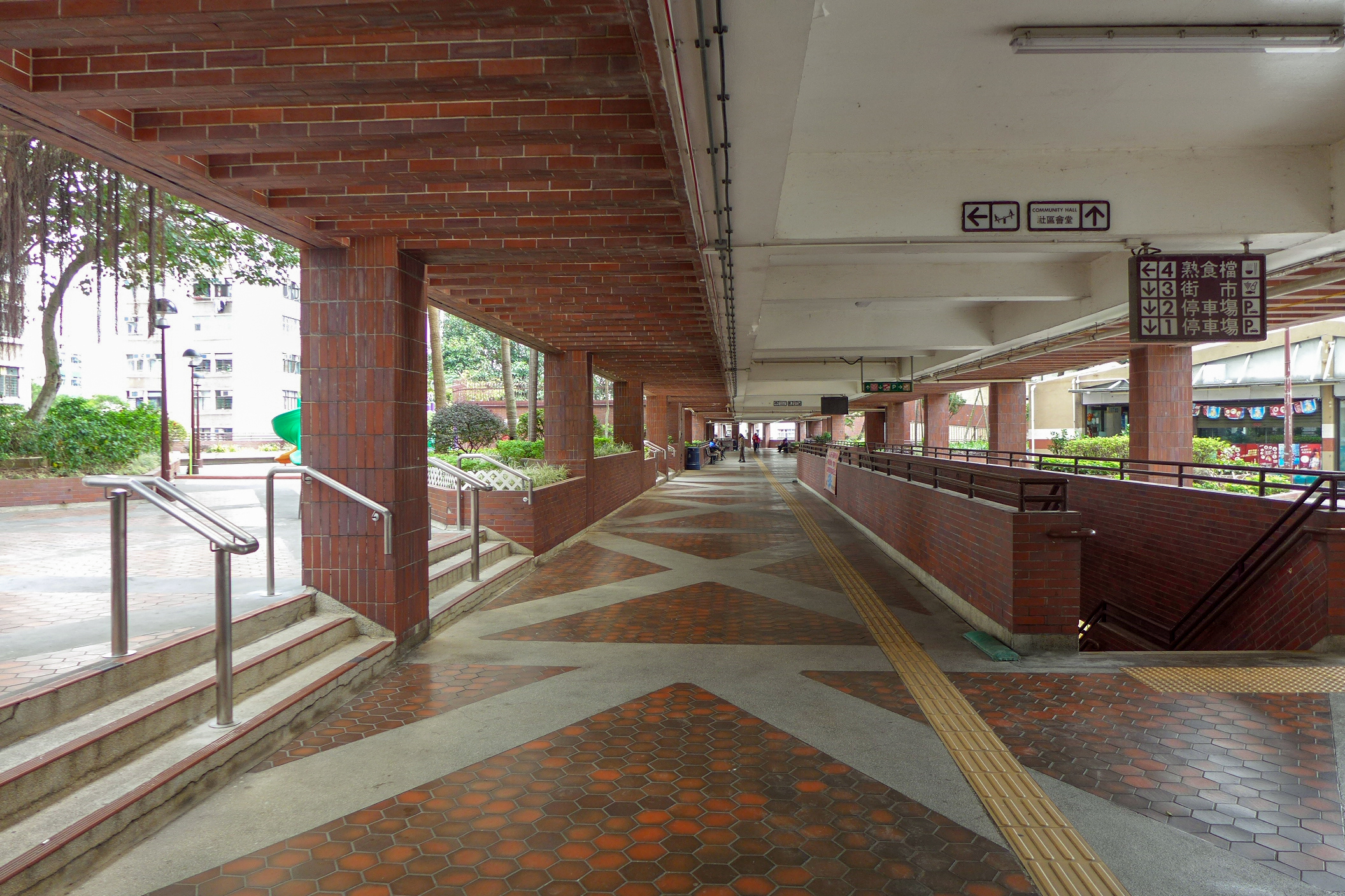 Lei Tung Estate Coverway access